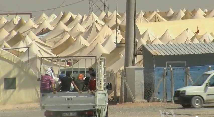 Syrian refugee camp on theTurkish border for displaced people of the Syrian civil war